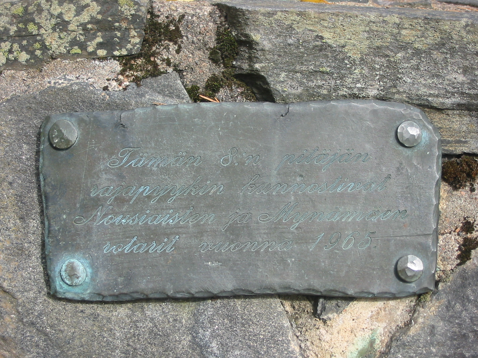 An inscription in the pedestal of Kuhankuono boundary stone in Kurjenrahka national park in Finland Proper